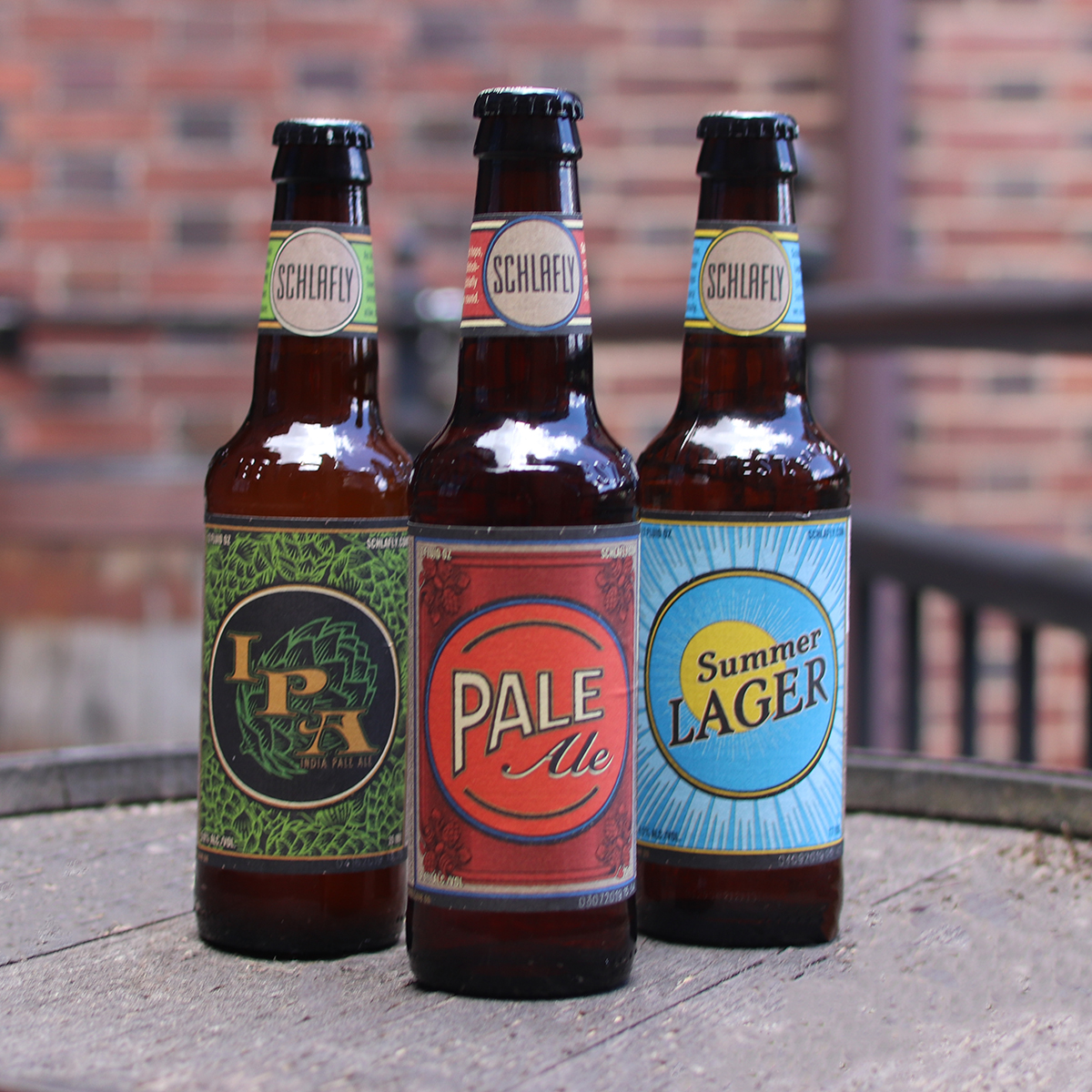 beer bottles